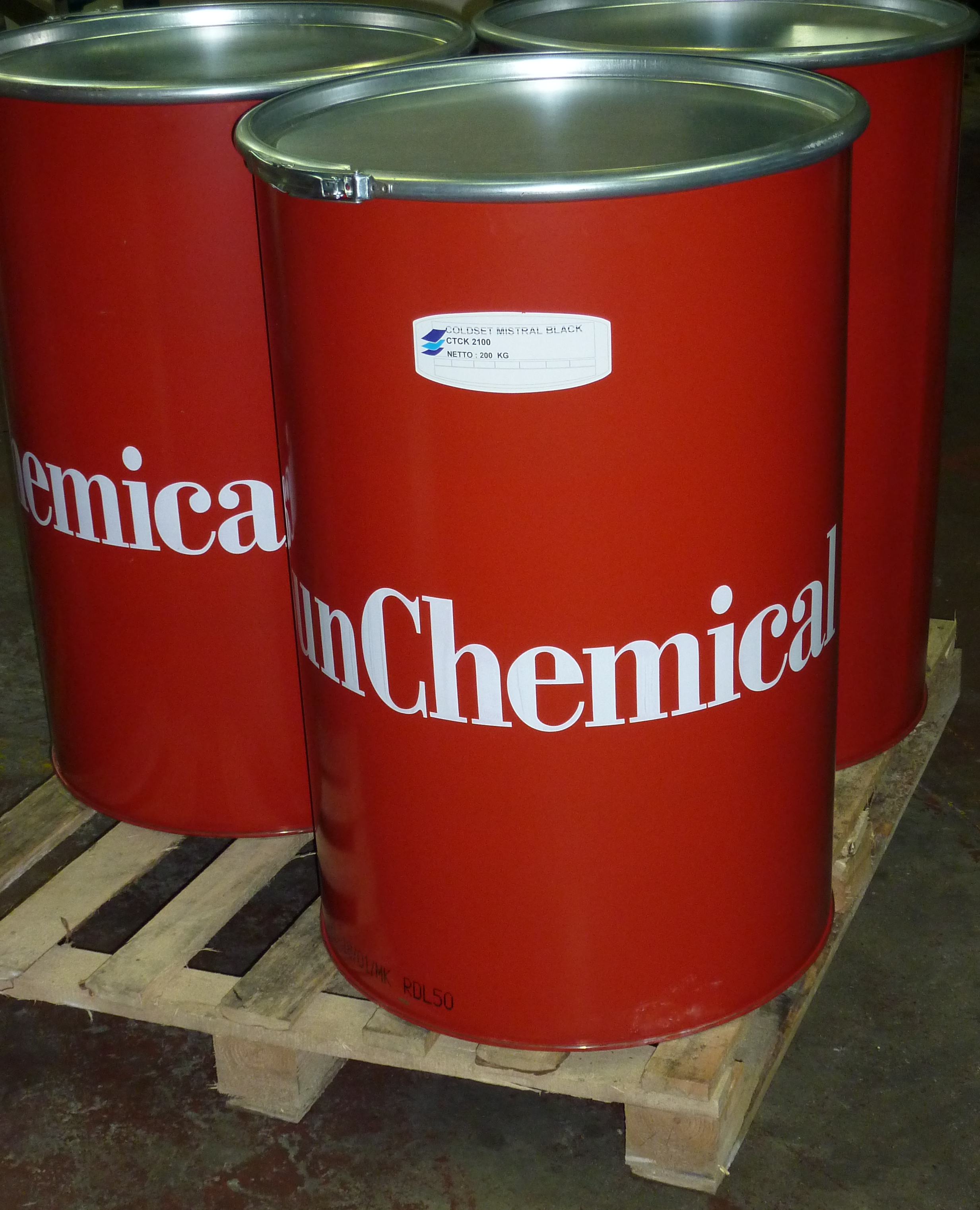 200kg barrels of Sun Chemical black coldset printing ink